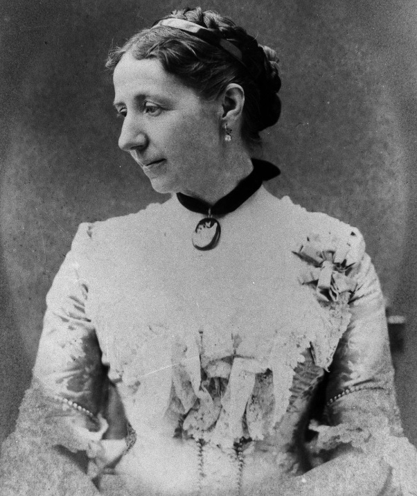 This is a portrait of Lady Jeanie Lucinda Musgrave, wife of Sir Anthony Musgrave, then Governor of the colony of Queensland